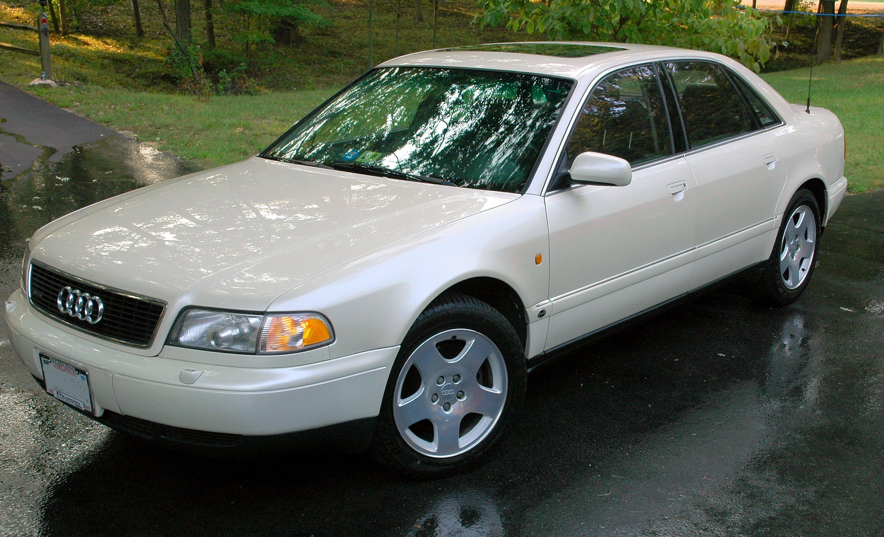 Audi A8 (D2) 4.2 quattro, photographed in the United States.Her simple forms are graceful and elegant.